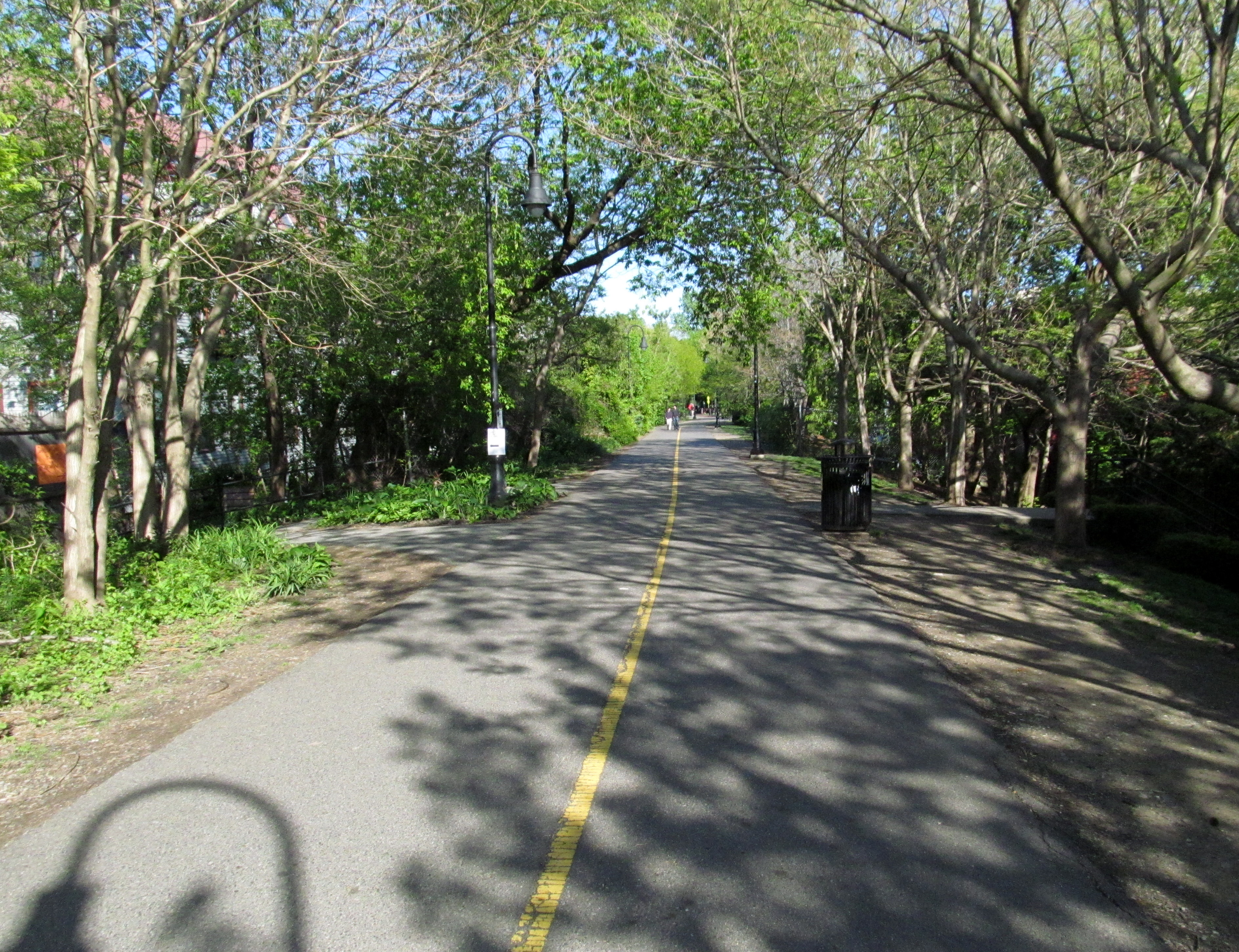 Somerville Community Path in May 2012